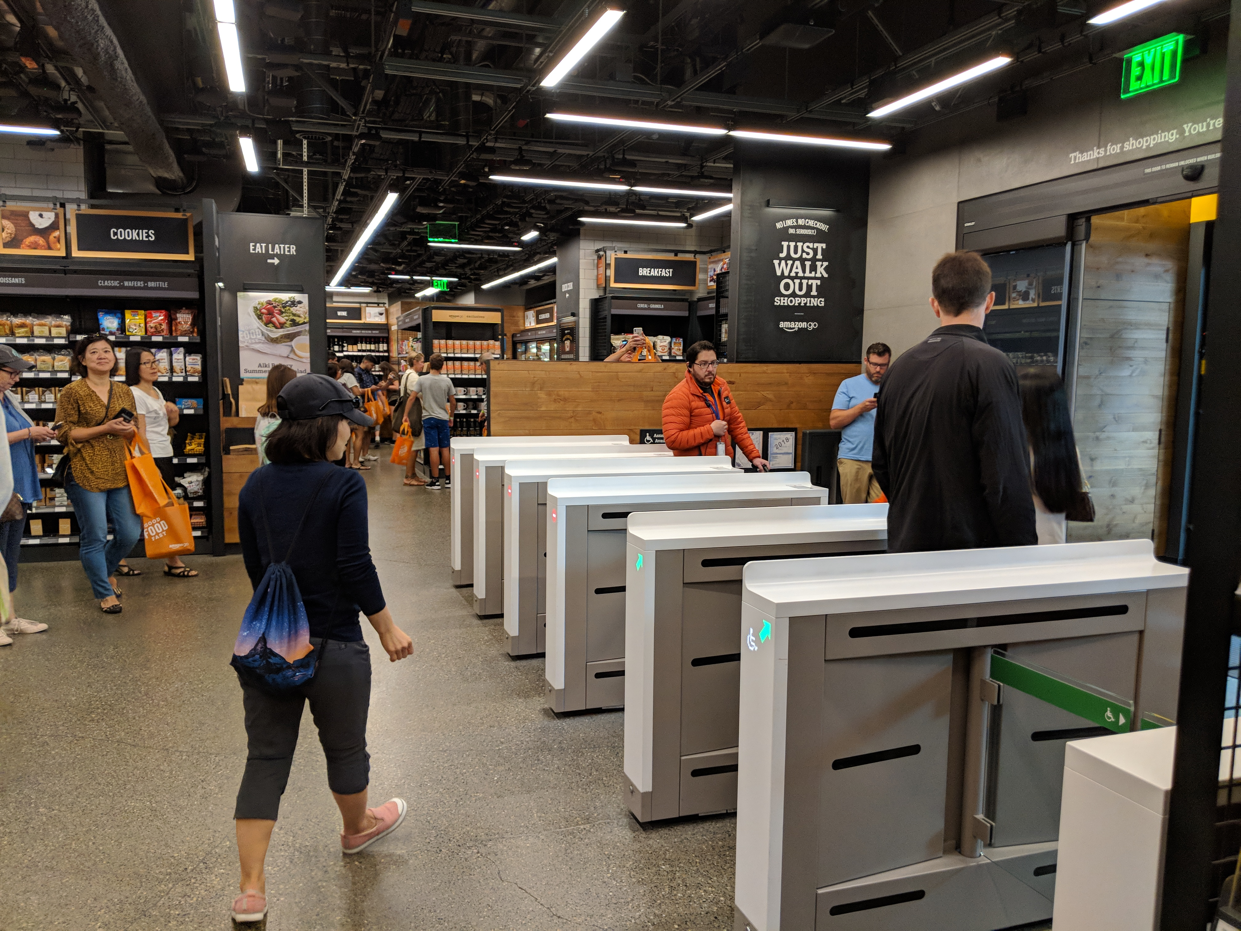 People exiting the Amazon Go grocery store in Seattle, Washington, USA.